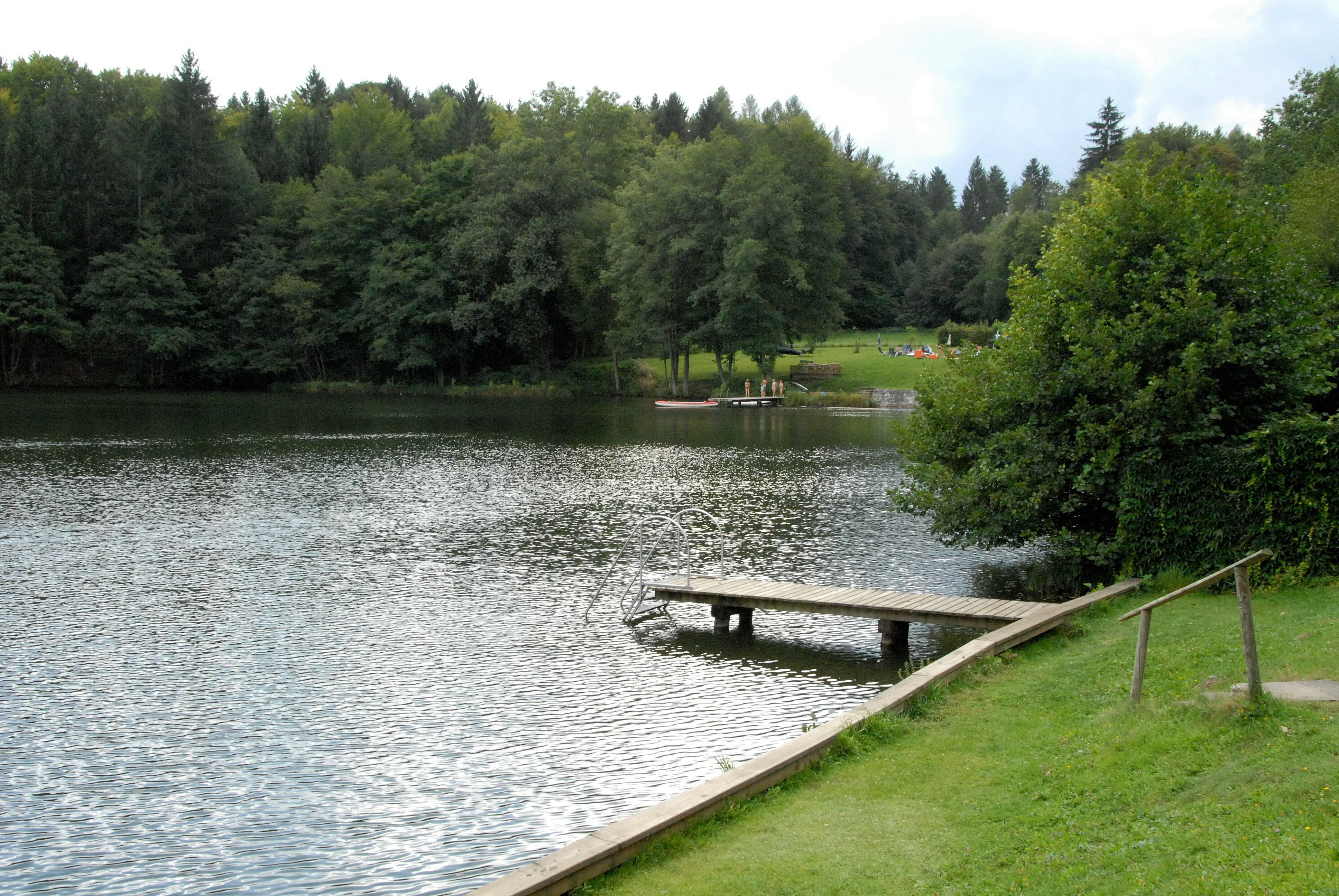 Trattnig pond at Goritschach, municipality Schiefling am See, district Klagenfurt Land, Carinthia / Austria / EU